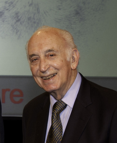 Photograph of George Hatsopoulos, receiving the 2011 Pittcon Heritage Award, 13 March 2011, from the Pittsburgh Conference on Analytical Chemistry and Applied Spectroscopy (Pittcon) and the Chemical Heritage Foundation. The award was presented at Pittcon 2011 in Atlanta, Georgia.